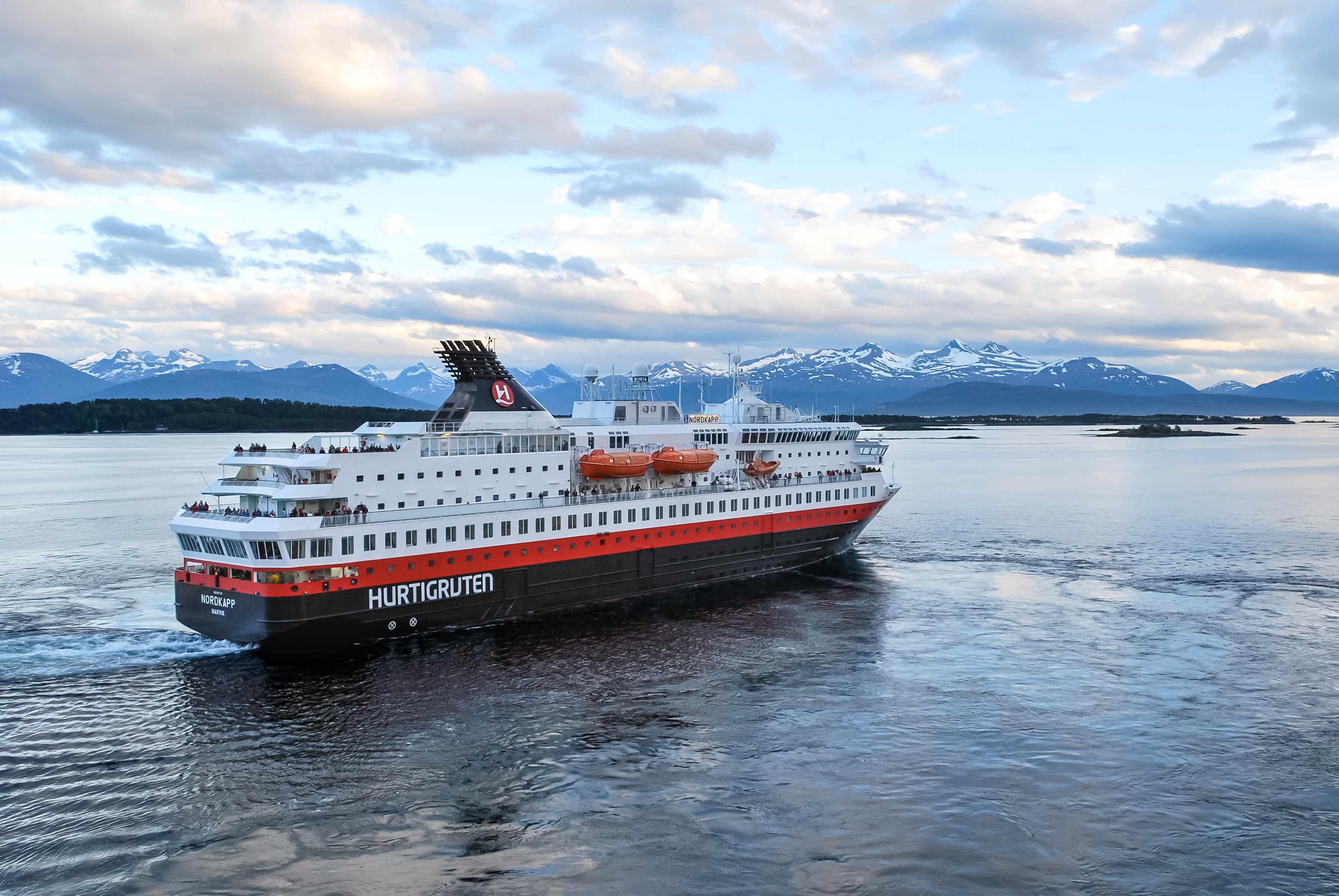 Hurtigrüten ferry cruiser, MS Nordkapp - IMO 9107772, leaving Molde, Norway on June 3, 2011.